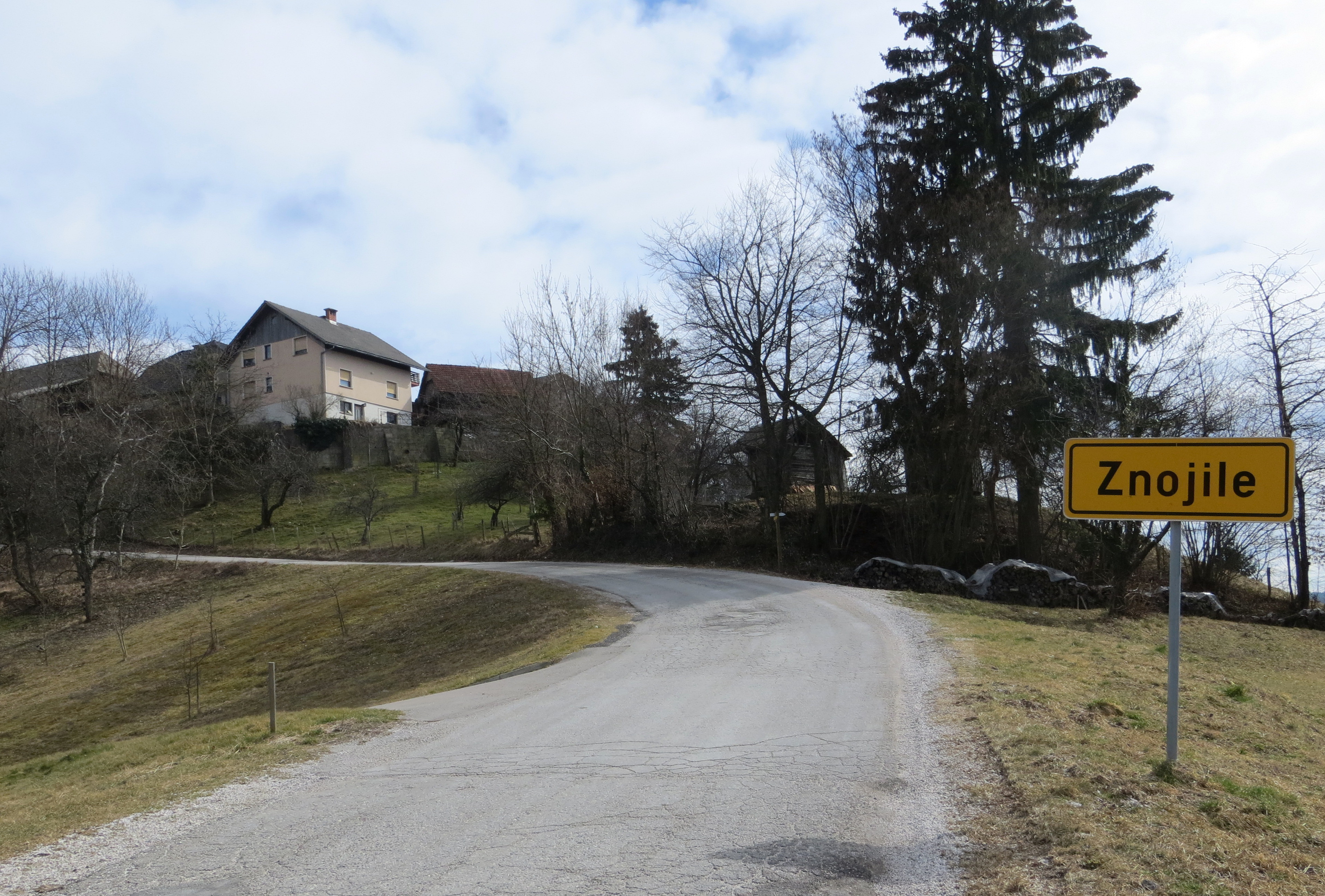 Znojile, Municipality of Kamnik, Slovenia